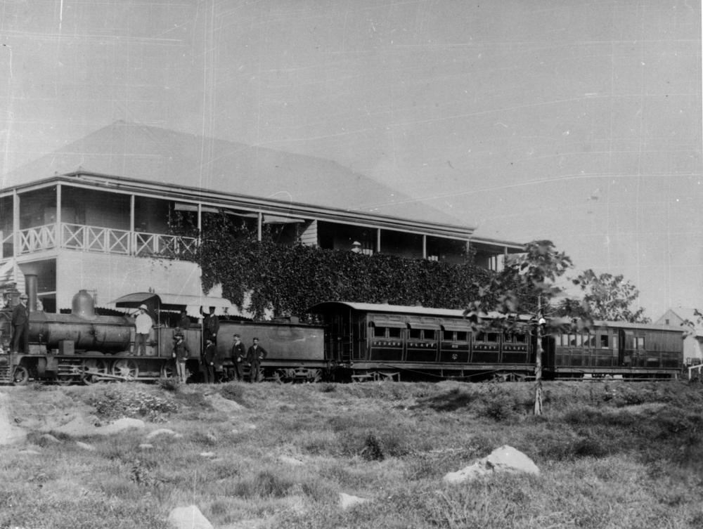 Locomotive at the Cooktown Railway Station, ca. 1889 The locomotive is either No. 2 or No. 3 of the Cooktown Railway. If it is No. 2 it would have been landed new at Cooktown off the ship 'Duke of Sutherland' in May 1886, and in 1889 would have been renumbered No. 200 of the Q.G.R. fleet of locos. If No. 3 it would have been landed new at Cooktown off the 'Duke of Westminster' in 1887 and renumbered 201 in 1889. The boiler is painted grey which is assumed to be the colour it bore when sent from the builder Dubs & Co. of Glasgow. (Description supplied with photograph).